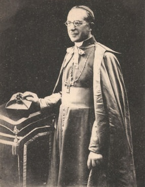 Mgr Emmanuel Chaptal.